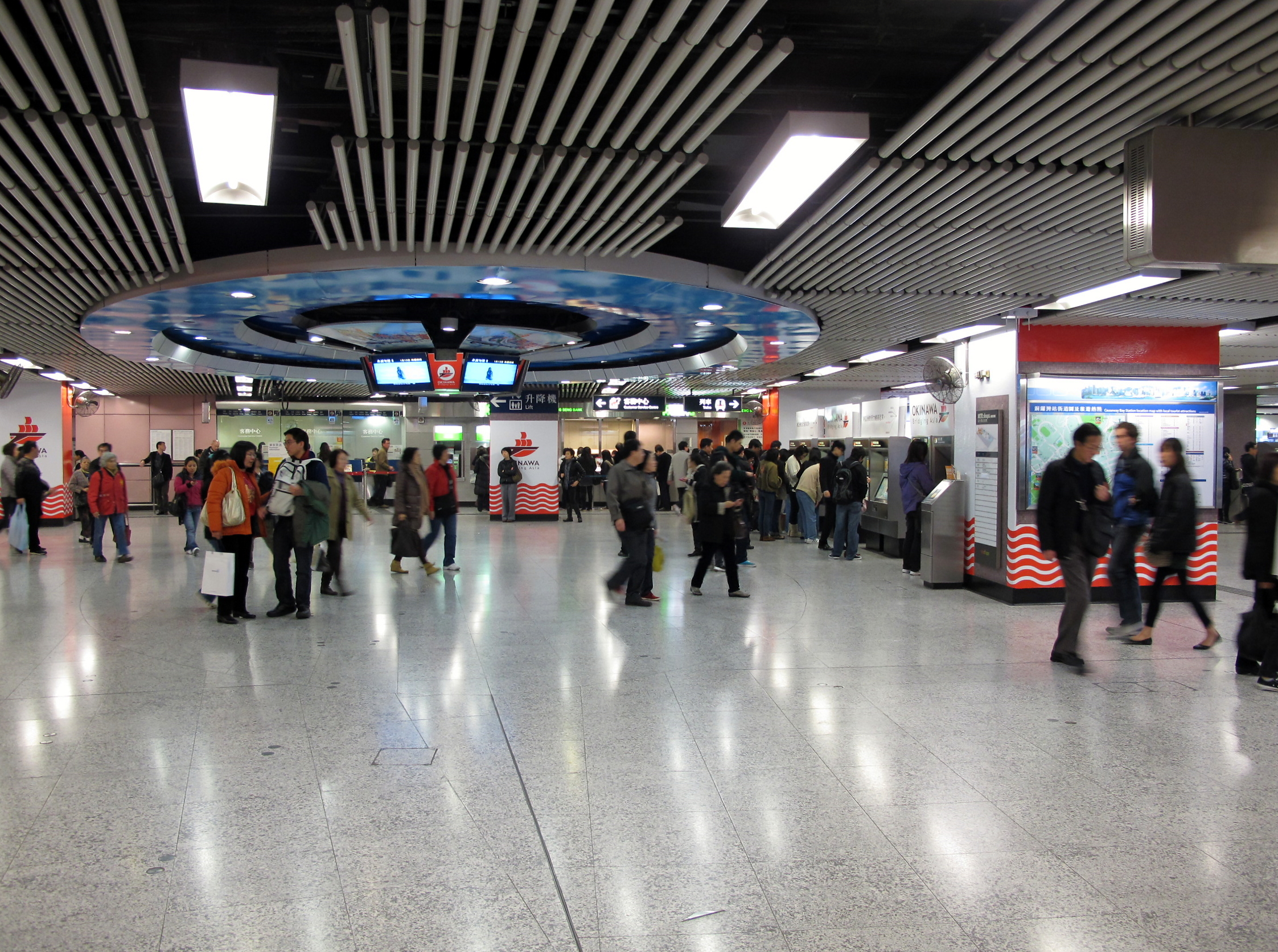 MTR Causeway Bay station east concourse